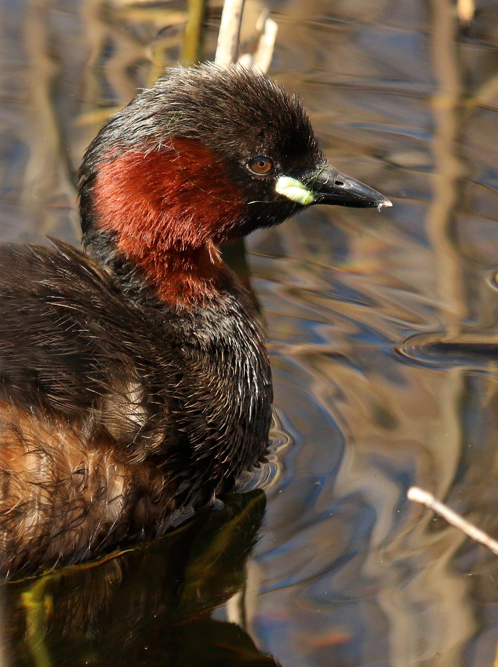 Little grebe (Tachybaptus ruficollis), WWT London Wetland Centre, Barnes